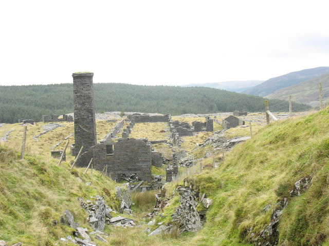 The stacked engine house and slate mill at Rhiwbach The position of the engine house and adjoining mill within the Rhiwbach Quarry can be seen on the aerial photo in the following link.